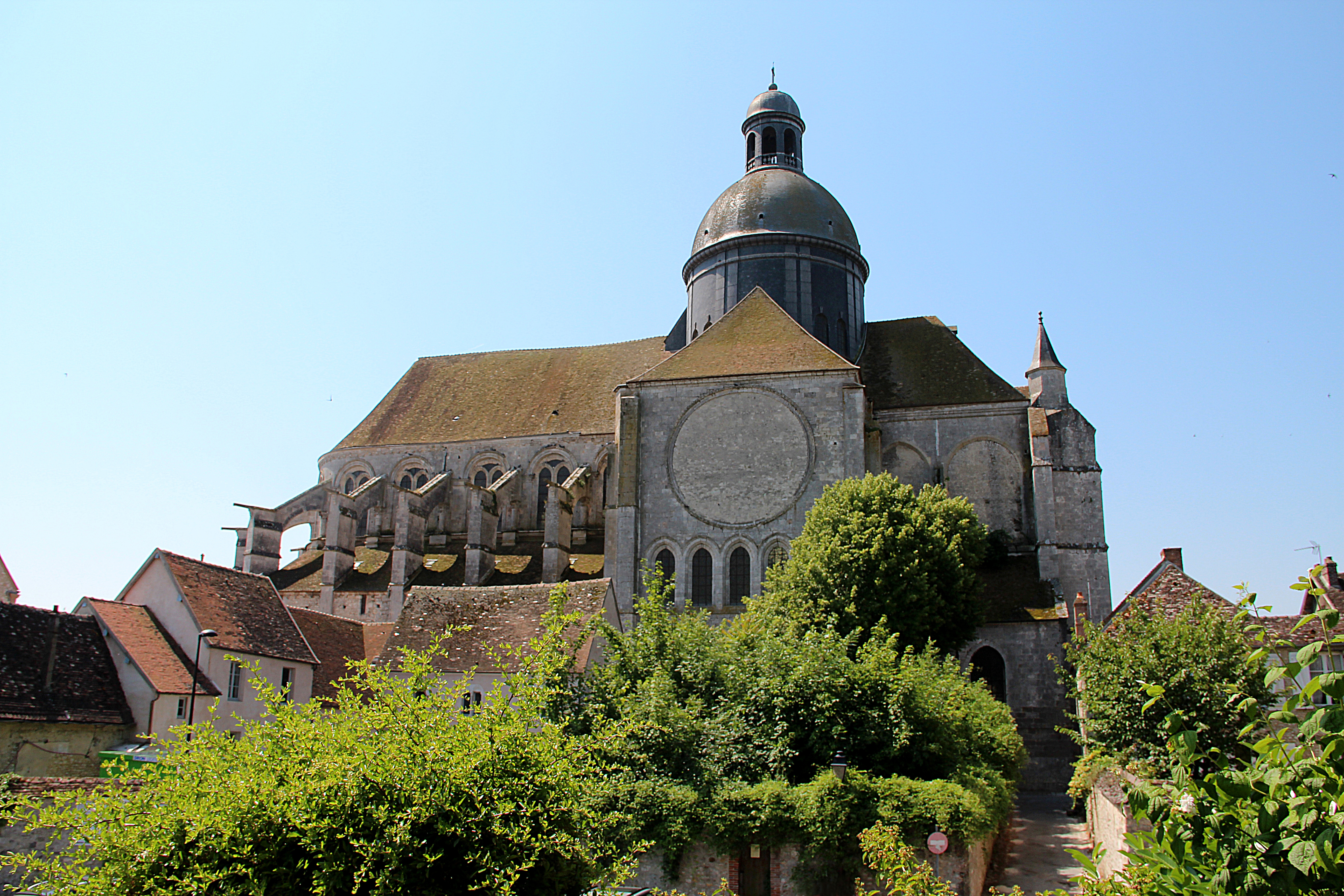 Provins (Île-de-France), the collegiate Church of Saint-Quiriace (12th century) in the upper town - Chevet and north transept.